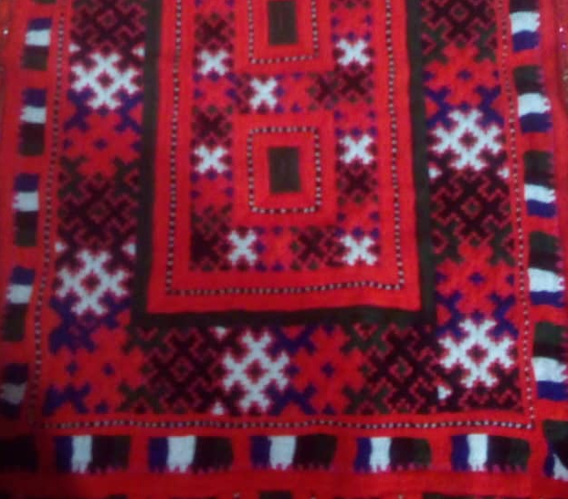 Baluchi doozi-5